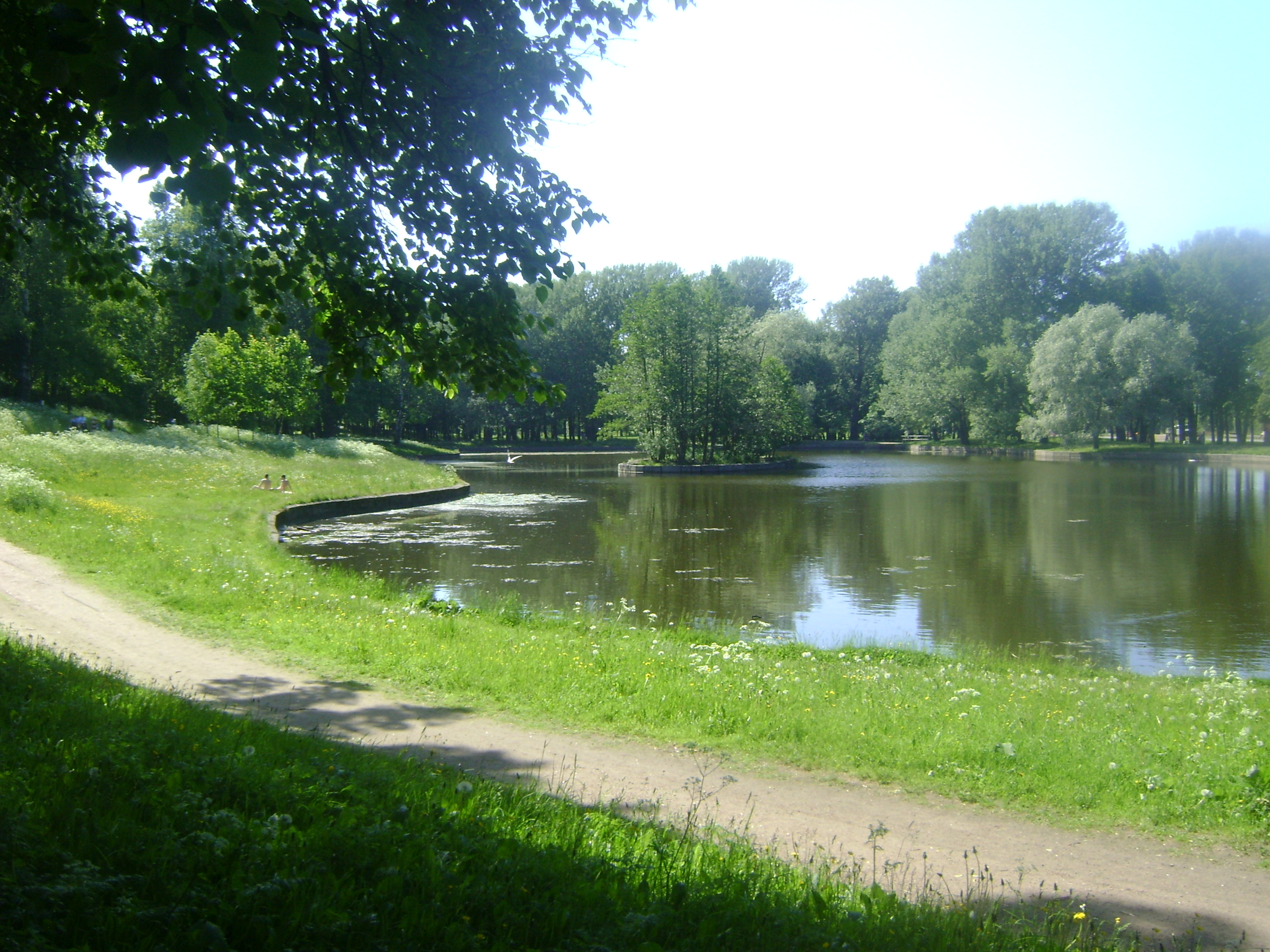 park Novoznamenka